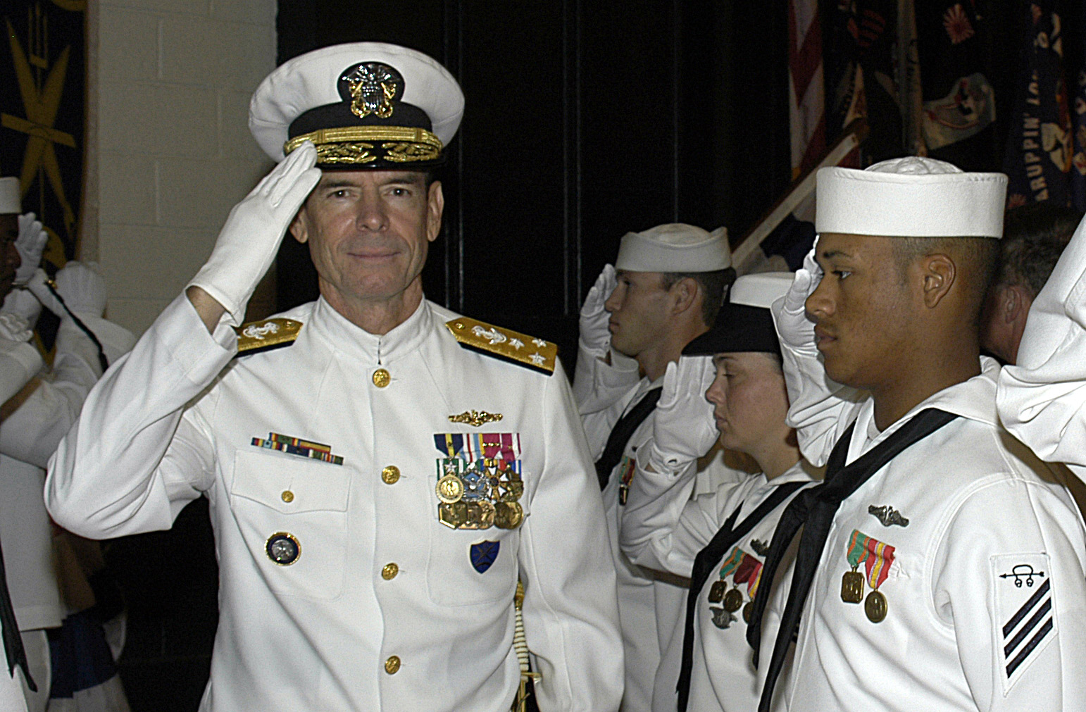 Naval Station Norfolk, Va. (Oct. 15, 2004) - Vice Admiral Charles L. Munns salutes as he passes through side boys as the new commander of naval submarine forces. Munns relieved Vice Admiral Kirkland H. Donald in a ceremony held at Naval Station Norfolk, Munns was previously assigned as director of Navy/Marine Corps Internet (NMCI). Donald will report later this month as director of Naval Nuclear Reactors.